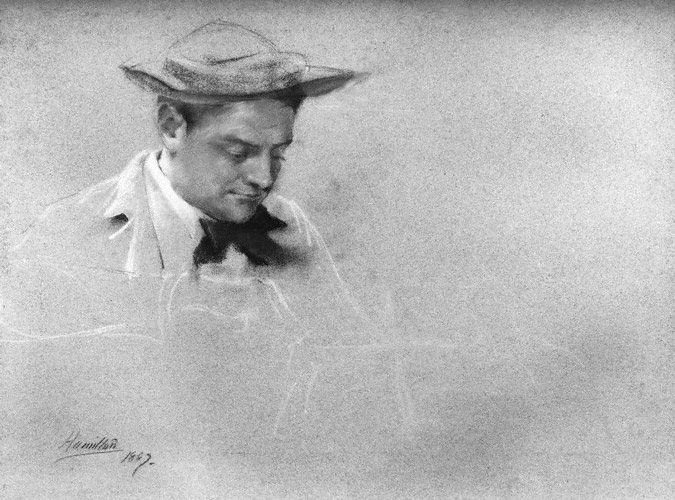 Portrait of Sir Alfred Gilbert, chalk on coloured paper